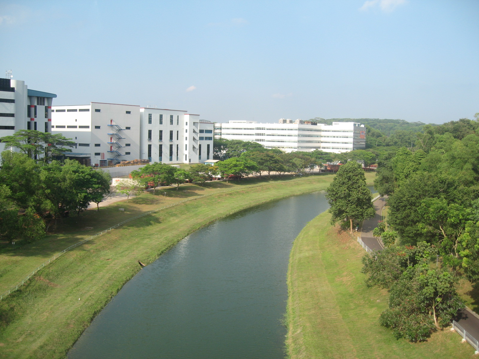 Sungei Ulu Pandan. Taken by Terence Ong in March 2006.